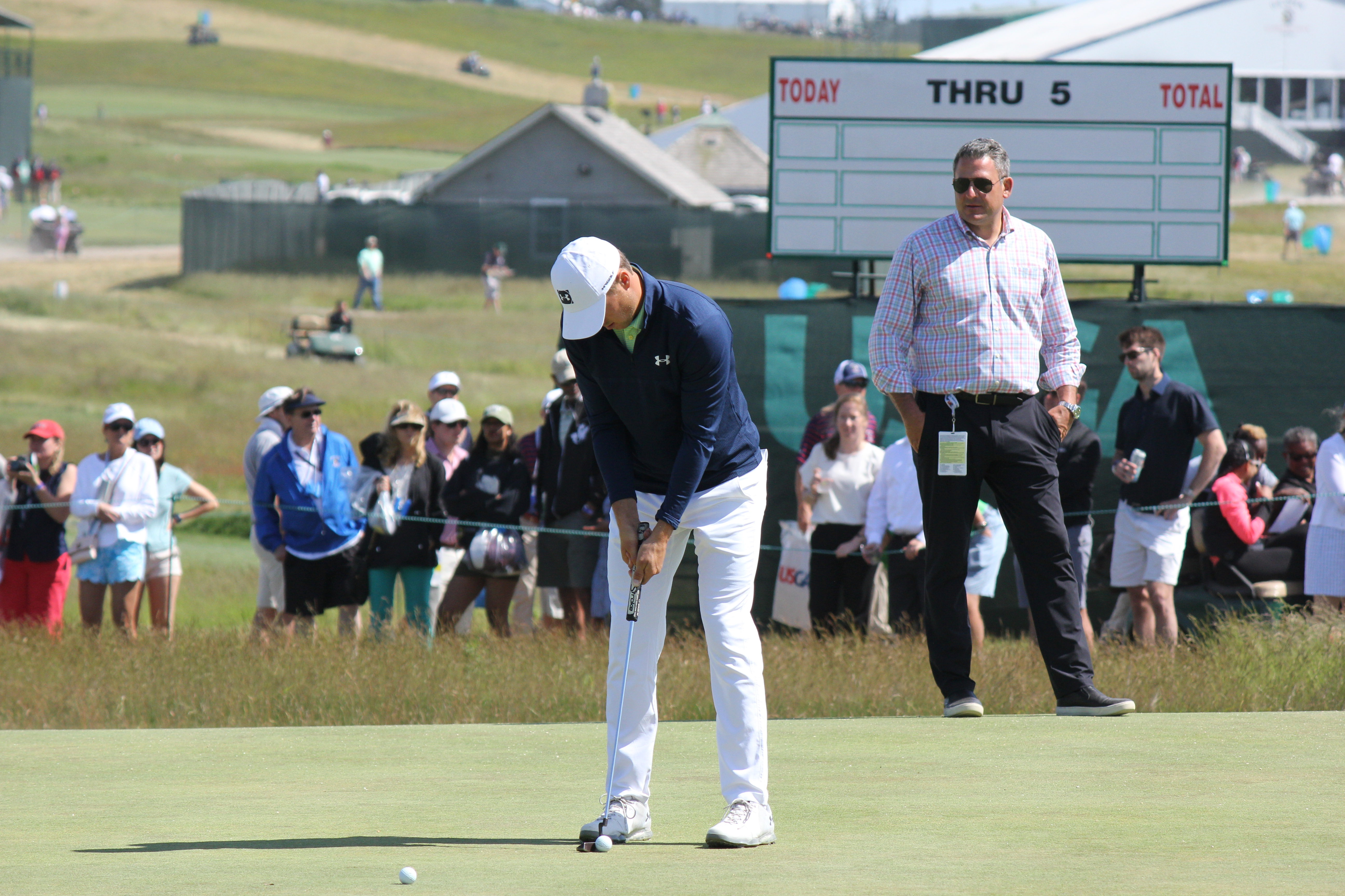 Jordan Spieth at the 2018 US Open